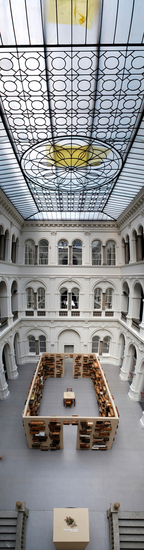 Photograph of the Floodwall exhibition at the National Museum in Wroclaw, Poland. Photograph by Philip Oeschli.